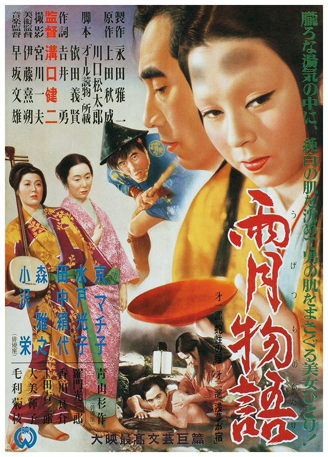 Movie poster for 1953 Japanese movie Ugetsu (雨月物語, Ugetsu monogatari).